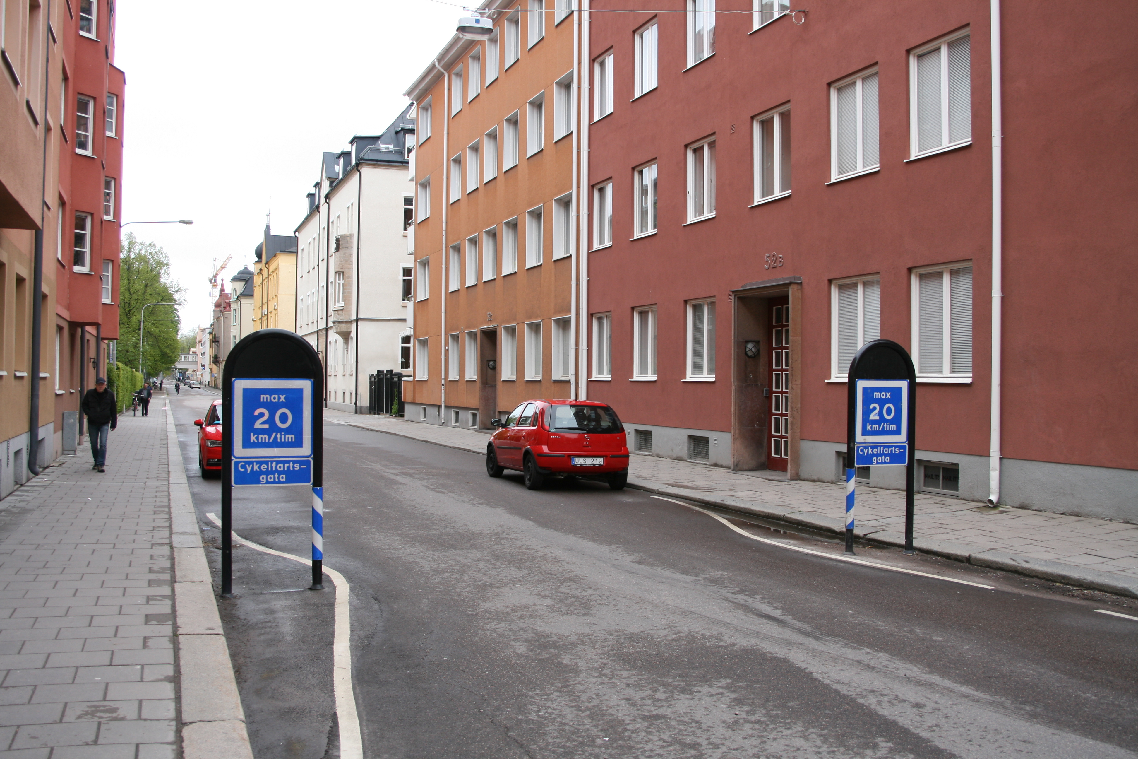 Signs indicating the start of a bicycle boulevard section of street Klostergatan, Linköping, Sweden.